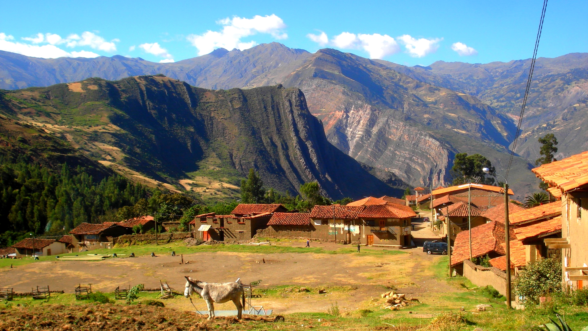 Distríto de Llama (Llama)